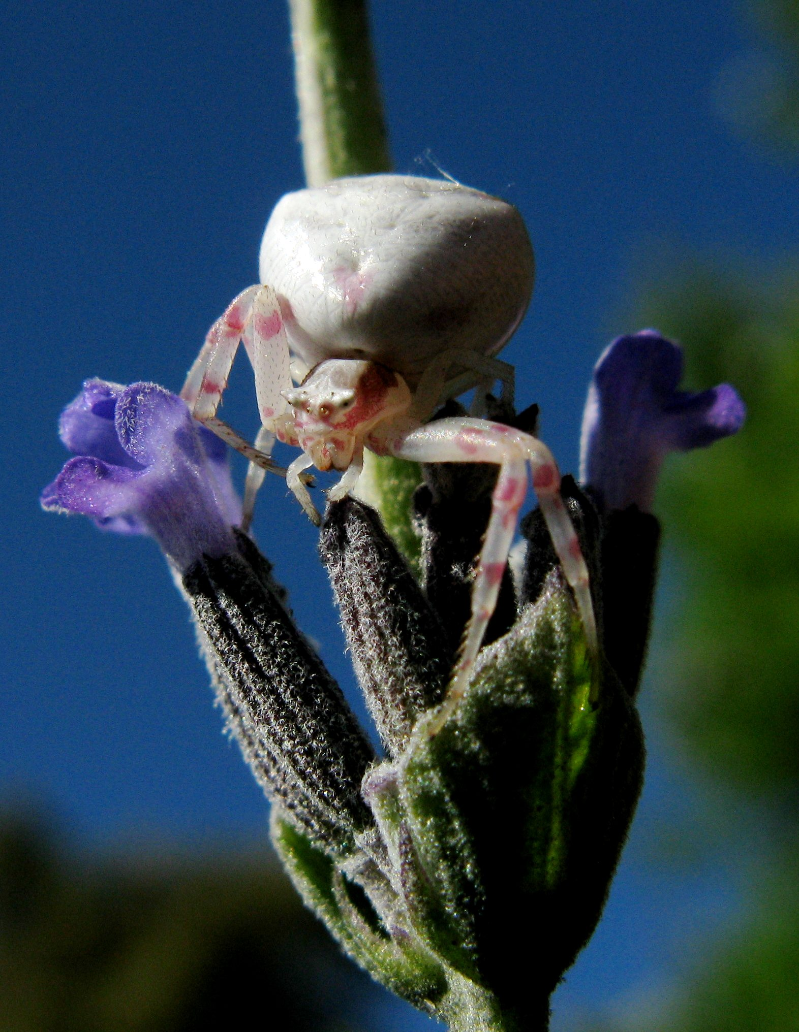 Thomisus species. Thomisidae female on lavender. Too large to fit into the flower, she waits behind the flower for bees or other prey.